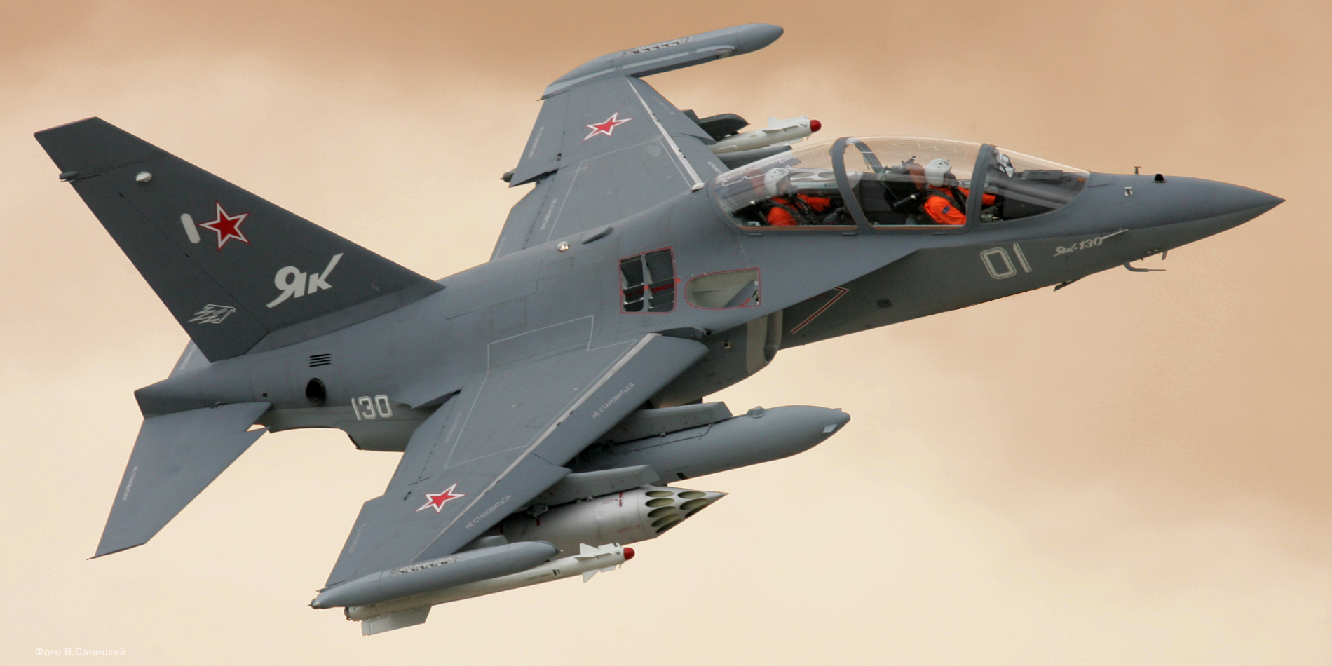 Yakovlev Yak-130 at 2009 MAKS Airshow